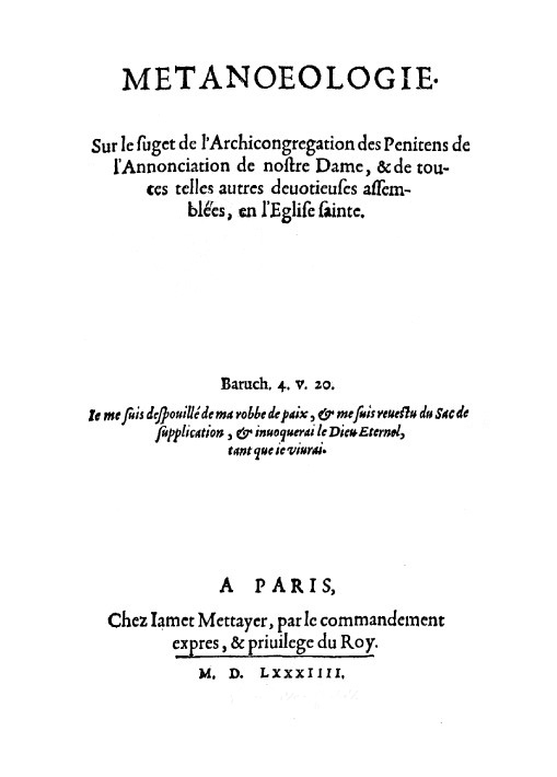 Title page of Emond Auger, Metanoeologie, (Paris, Jamet Mettayer, 1584).